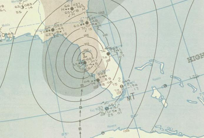 Surface weather analysis of the Florida hurricane on 8 October 1946 making landfall on Florida.